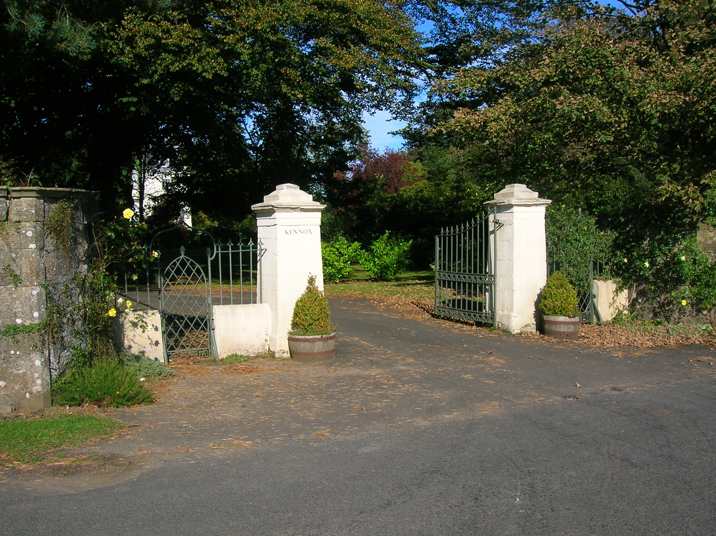 The gates and remains of the two small gatehouses at Kennox House, East Ayrshire, Scotland. October 2007.Rosser 19:03, 5 October 2007 (UTC)